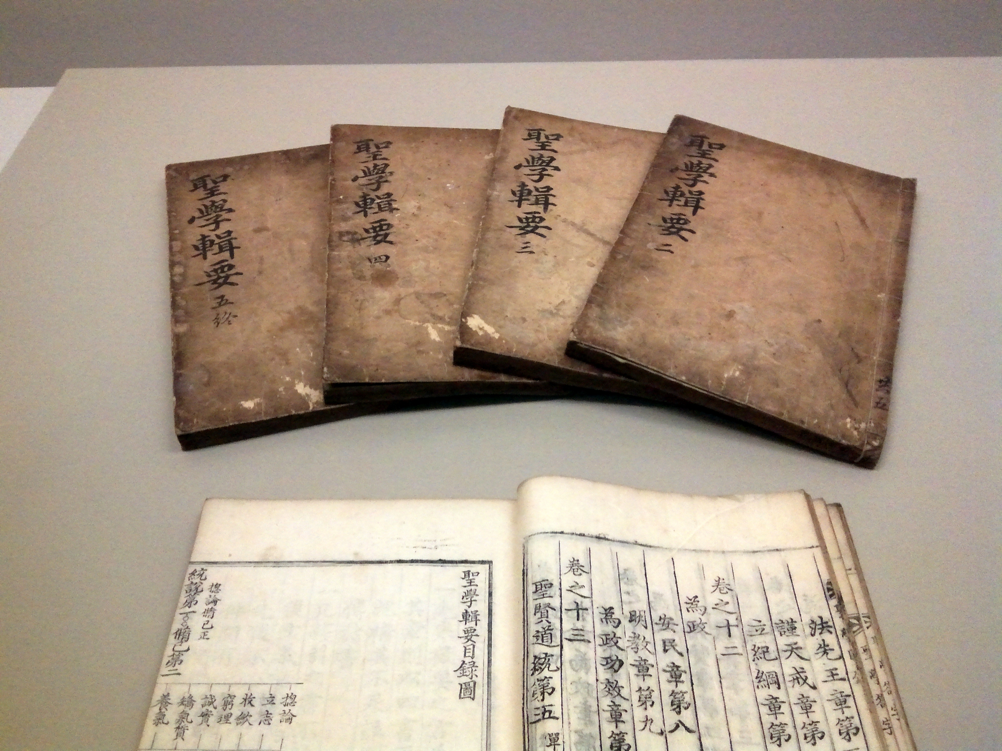 The Essentials of the Studies of the Sages by Yi I(Korean Confucian scholars of the Joseon Dynasty) at National Palace Museum of Korea